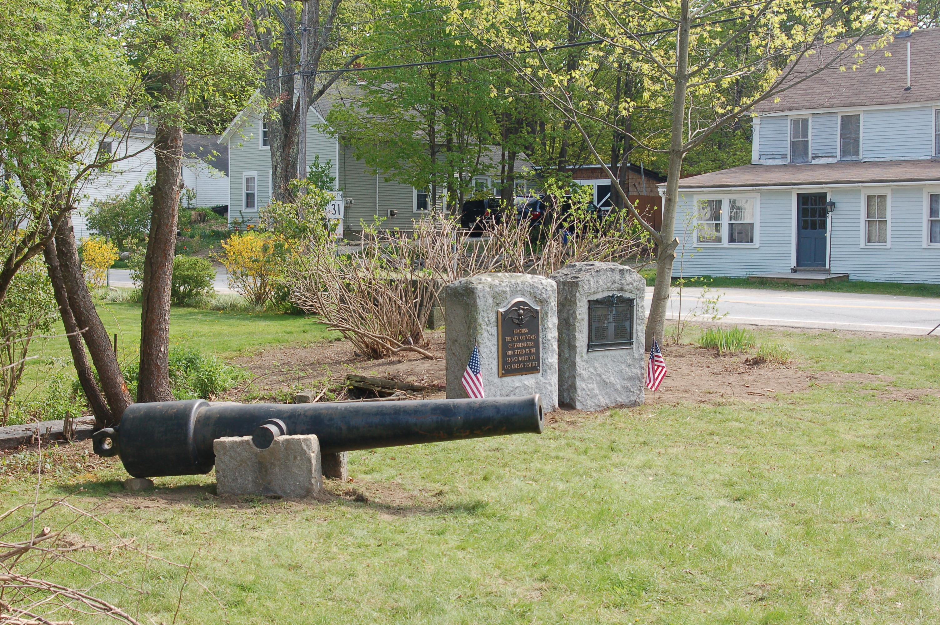 Hartshorn Memorial Cannon. South Lyndeborough, NH. The cannon is a Parrott rifle.